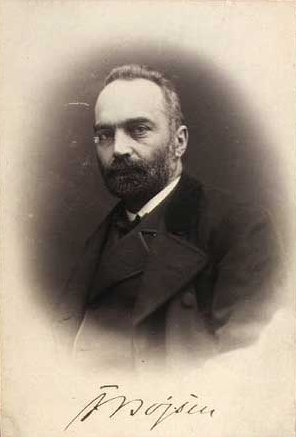 Frede Bojsen (1841-1926), Danish politician and MP